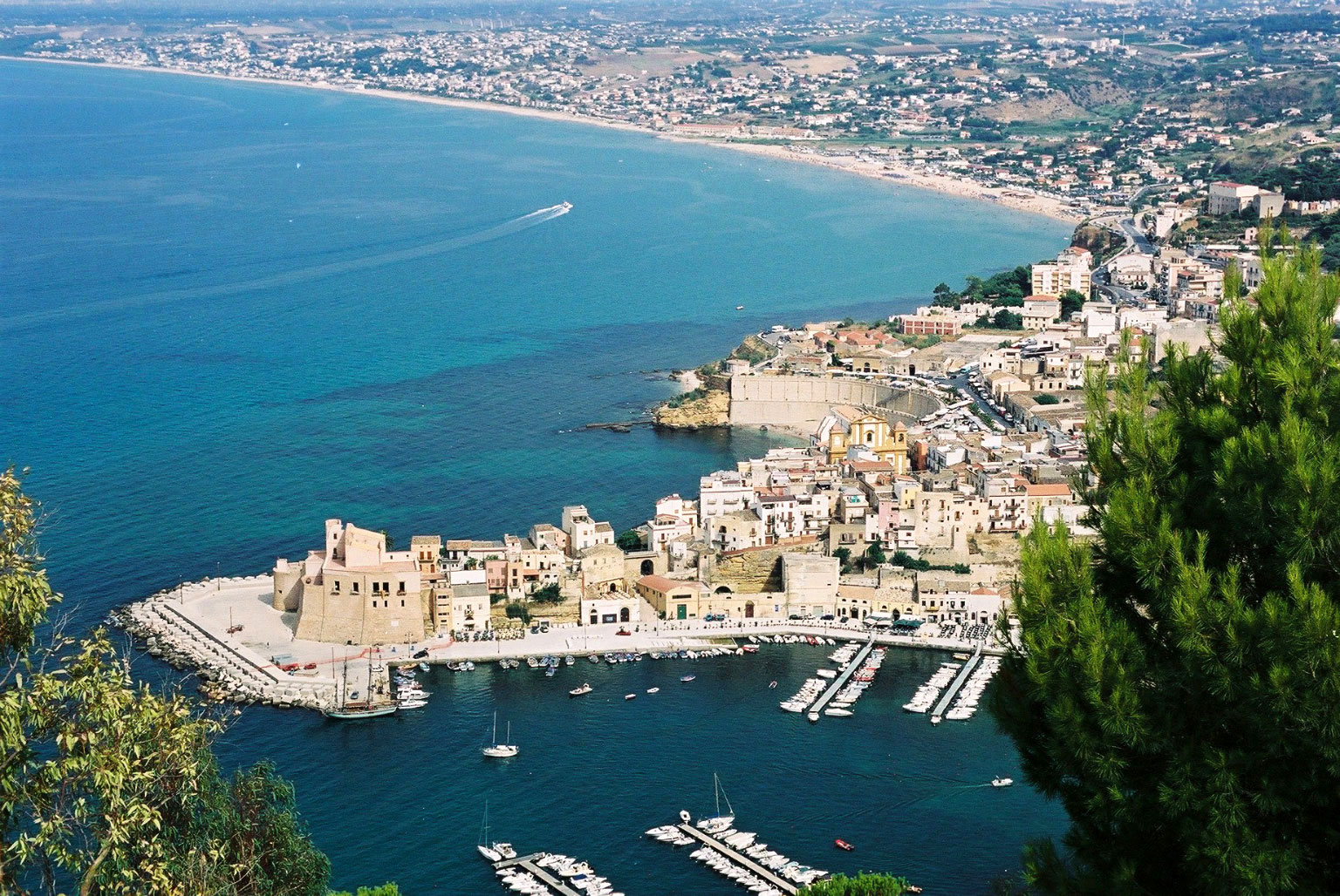 Castellammare del Golfo View from a hillside to the port and the castle